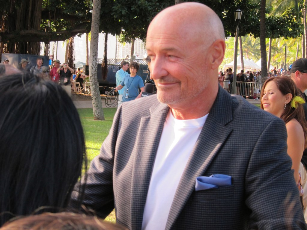 The actor Terry O'Quinn